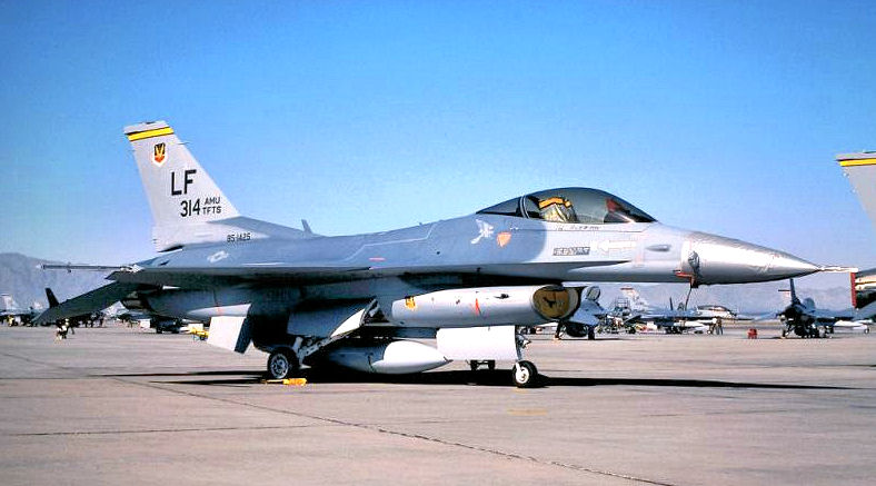 314th Fighter Squadron General Dynamics F-16C Block 25F Fighting Falcon 85-1425